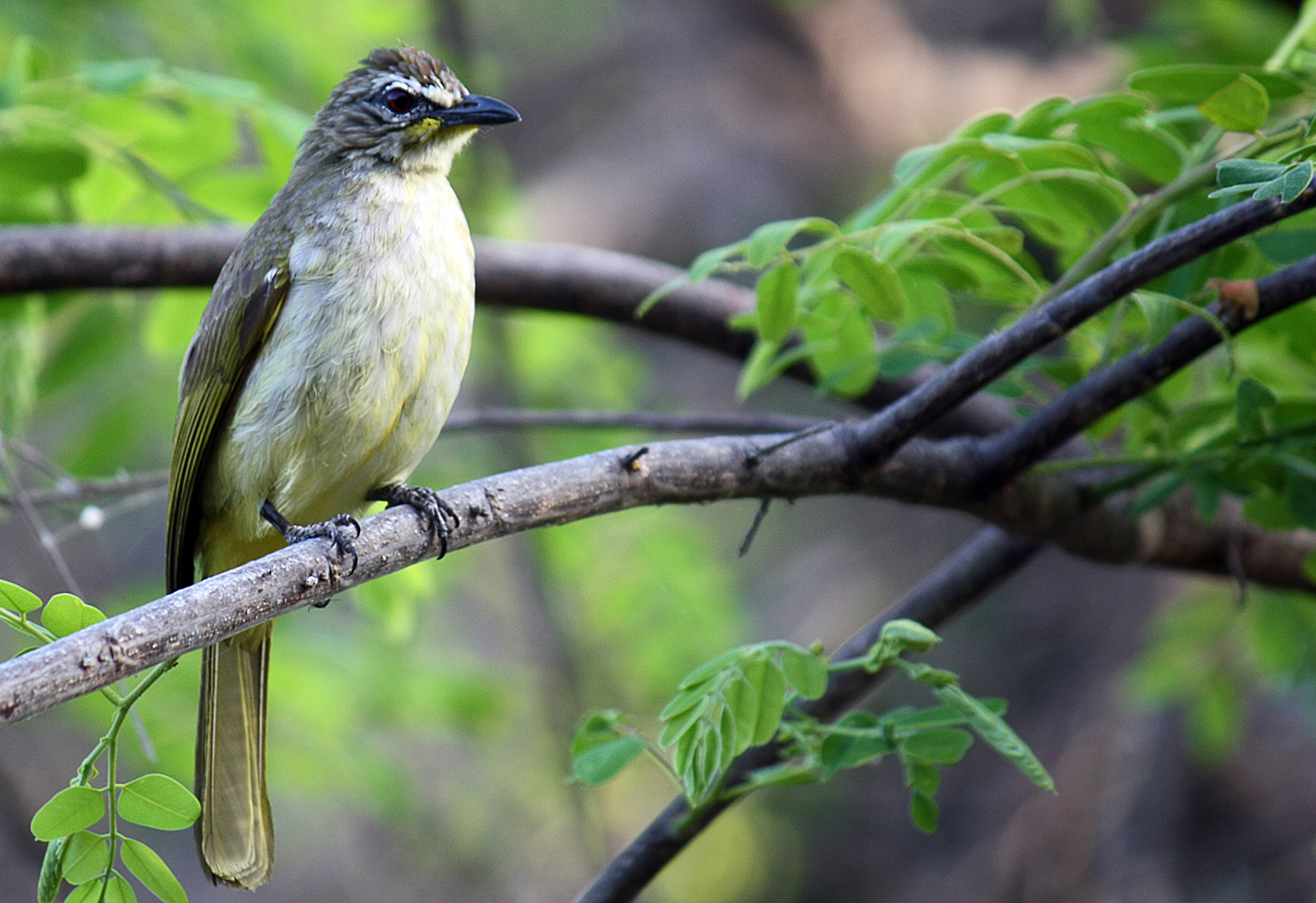 White-browed Bulbul ( Pycnonotus luteolus). Photogrphed in Kirithale (Pollonnaruwa district), Sri Lanka